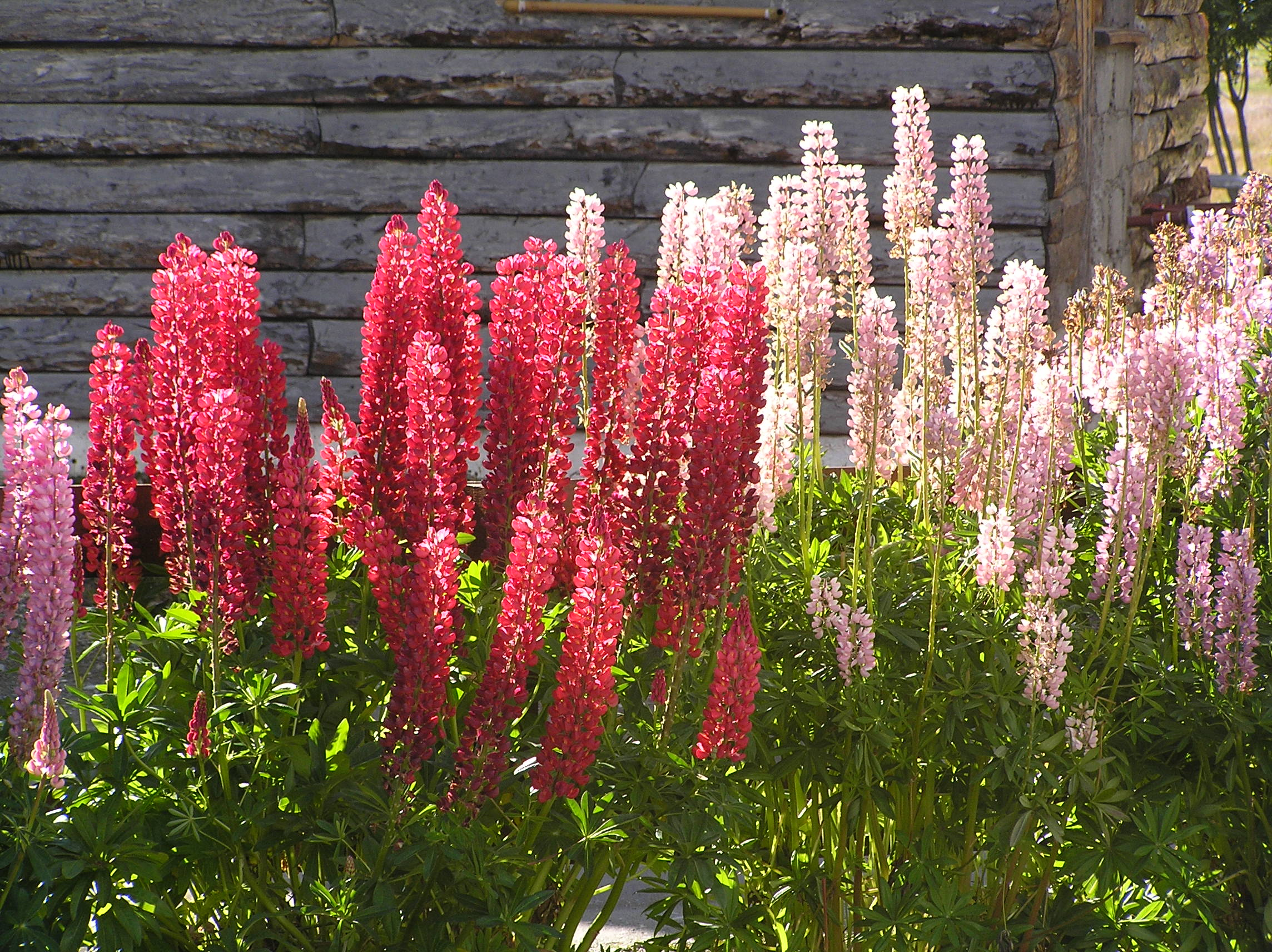 Lupinus polyphyllus flowers near the Martial ski lift, Ushuaia, Argentina Author: Mr. Tickle Date: February 2nd, 2006 Place: Ushuaia (Argentina)